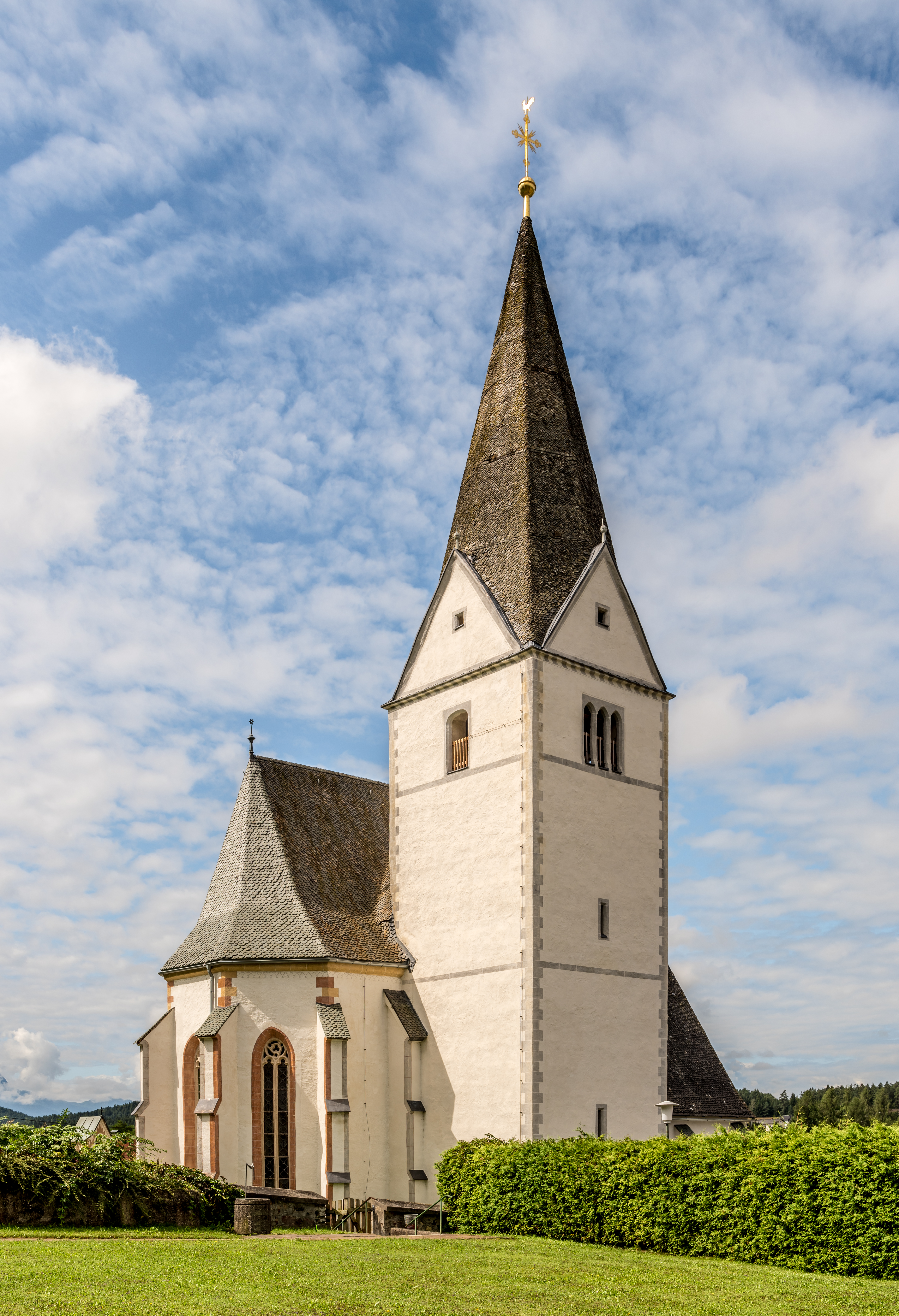 Parish church Saint Mary Magdalene, municipality Ruden, district Voelkermarkt, Carinthia, Austria, EU